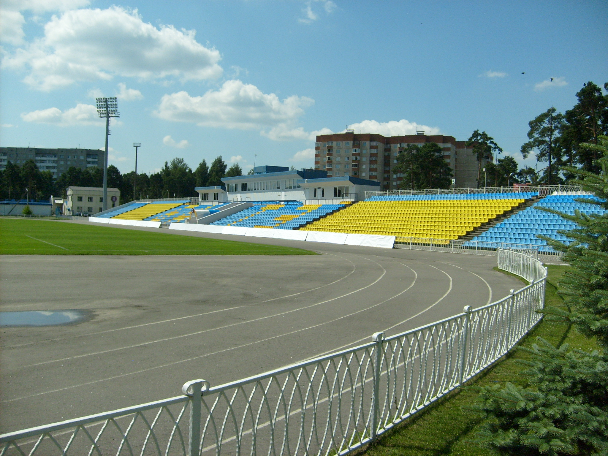 Haradzki Stadium. West stand